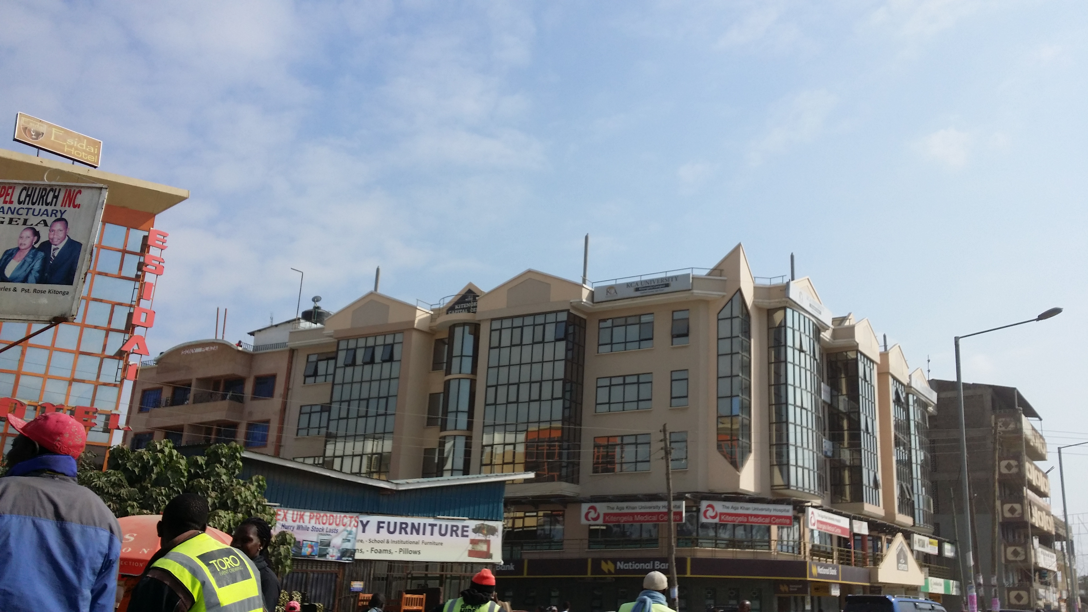 Kitengela Town Kiswahili: Mji wa Kitengela